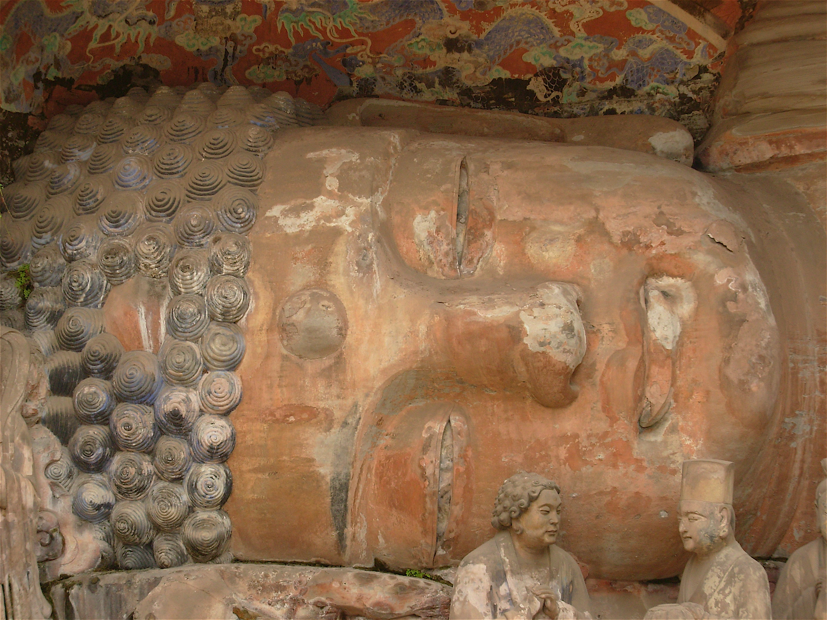 Rock carving of Sakyamuni Buddha entering Nirvana, with his disciples/donors. At Baoding Shan, Dazu County, South west China. See